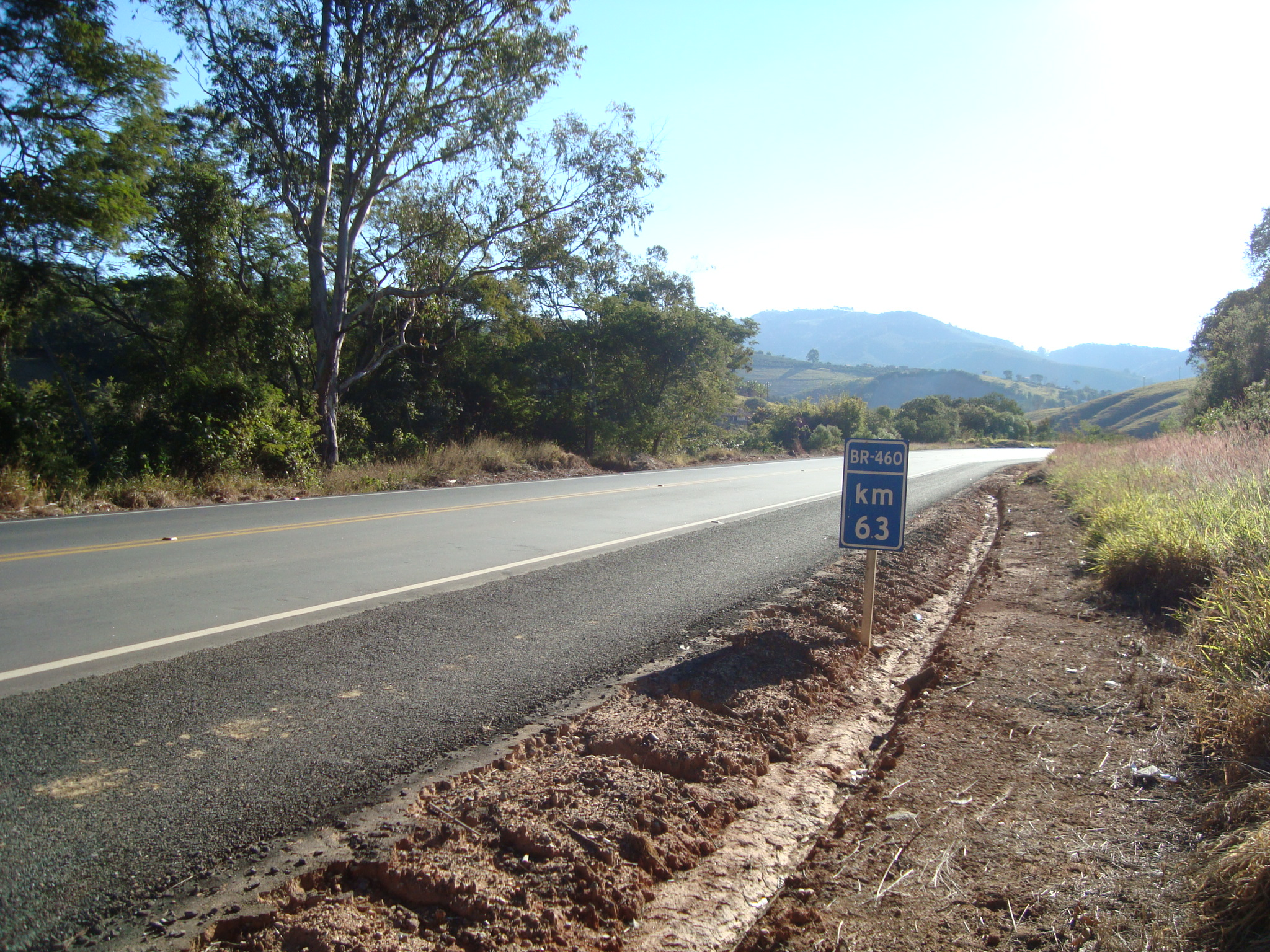 Road BR-460 in Carmo de Minas, Minas Gerais, Brazil